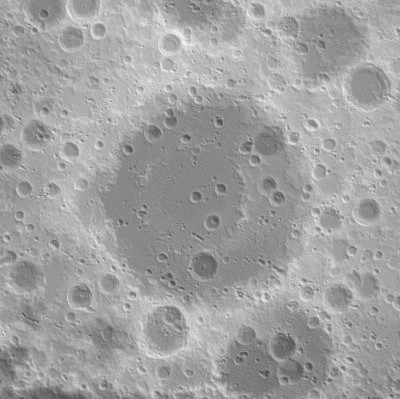 Korolev topographic map (light gray=high, dark gray=low). Generated from LOLA 1024ppd Elevation - Numeric layer with LRO-WAC Shaded Relief layer at 30% opacity overlain.